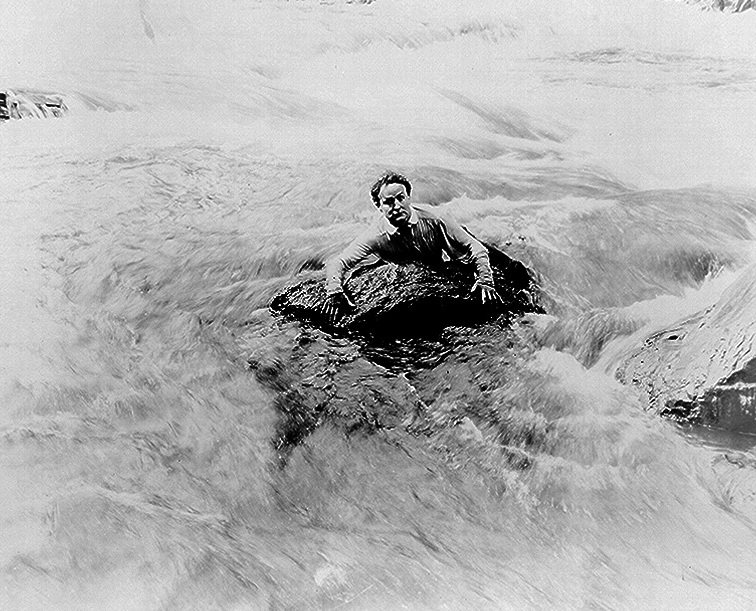 Harry Houdini (1874-1926) swims river in scene from The Man from Beyond, released in 1922. The movie included Houdini swimming the Niagara falls, but it is not confirmed if the image shown here is indeed at the Niagara falls.